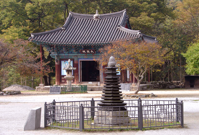 Geumsansa Yukgak tachung soktap